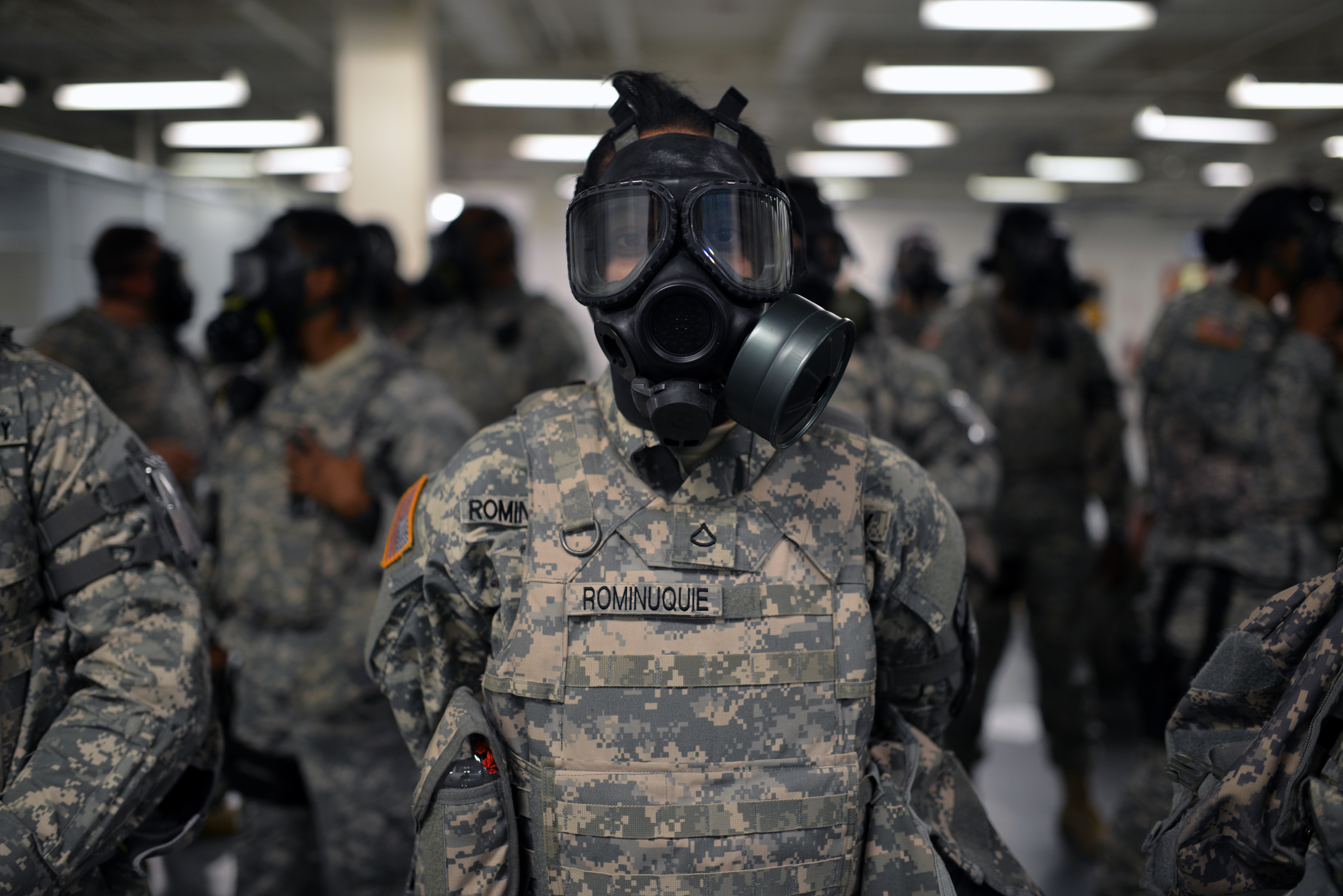 New York Air National Guard airmen, including over 40 from the 106th Rescue Wing, are currently activated by the state to take part in Joint Task Force Empire Shield. Joint Task Force Empire Shield’s primary goal is to detect, deter and prevent potential terrorist operations in the New York City Metropolitan Area. Security operations are implemented daily through pre-planned programs using a random and strategic methodology. Joint Task Force Empire Shield is designed to respond to a wide range of incidents. By developing a highly trained force in incident response and command, the Task Force prepares for domestic emergencies caused by humans or natural phenomena using lessons learned and best practices. Airmen, working alongside Army National Guard soldiers, patrol areas around New York City, including JFK Airport, Penn Station and the World Trade Center. (New York Air National Guard photo by Staff Sgt. Christopher S Muncy/Released)